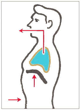 Breath.